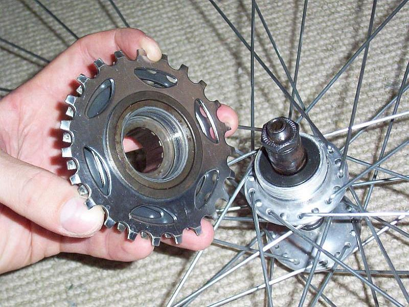 Shimano threaded freewheel and hub